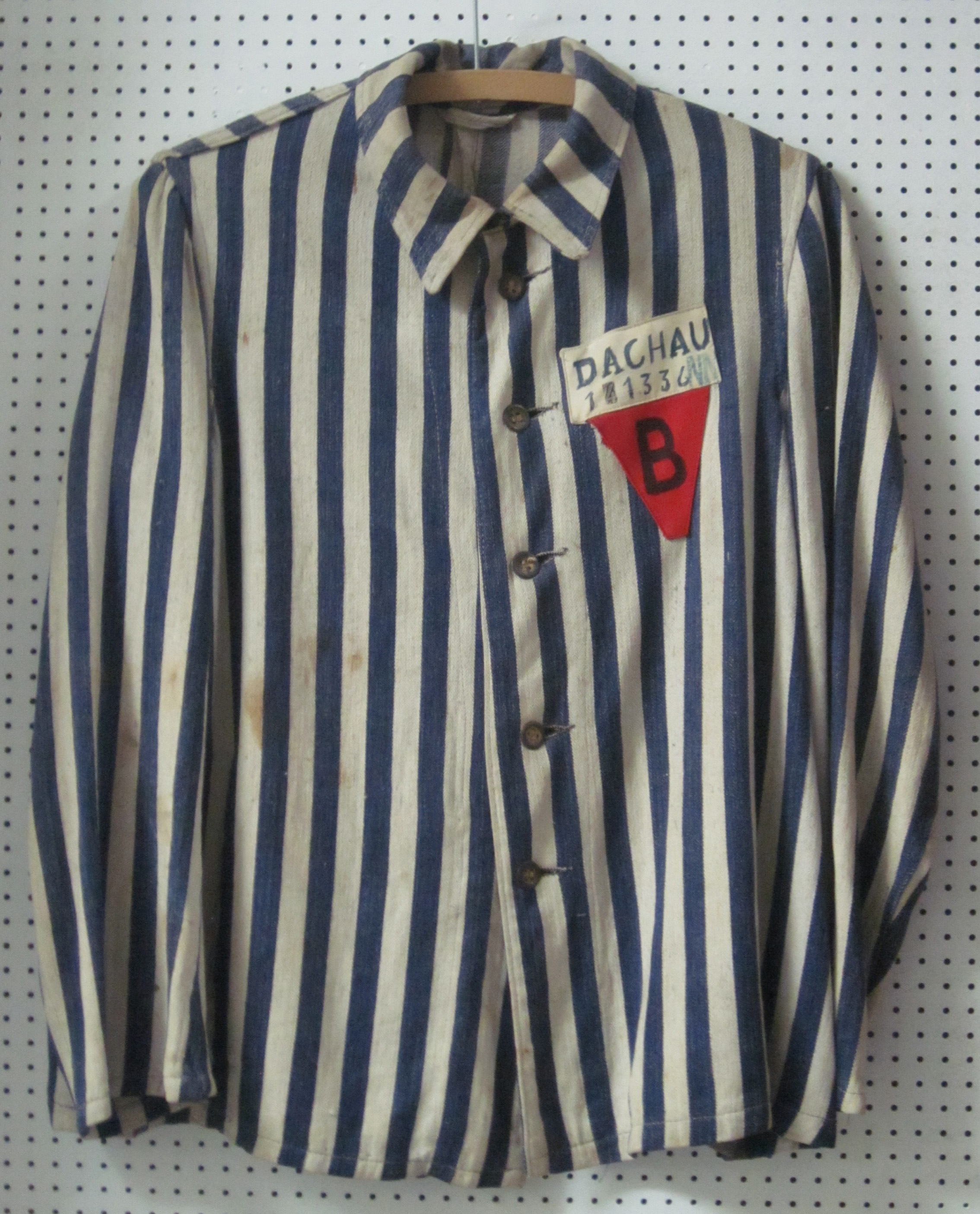 Striped uniform of a Belgian political prisoner (denoted by the "B" in a red triangle) in Dachau concentration camp. In the National Museum of the Resistance, Anderlecht.